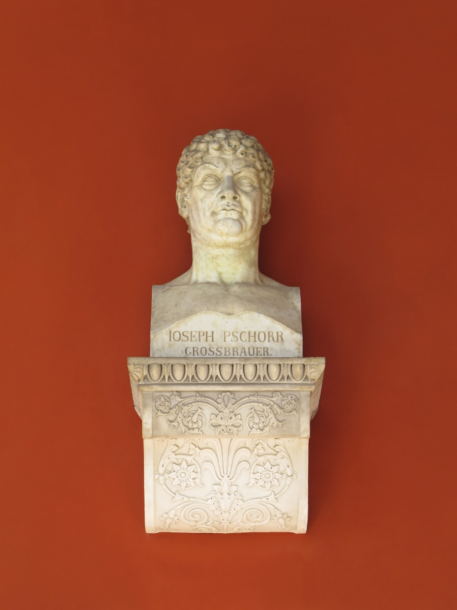 Munich, Hall of Fame, Bust of "Joseph Pschorr" (Brewer)